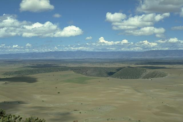 The Durango volcanic field covers 2100 sq km at the eastern edge of the Sierra Madre Occidental (background) Located in Durango, of north-central México.